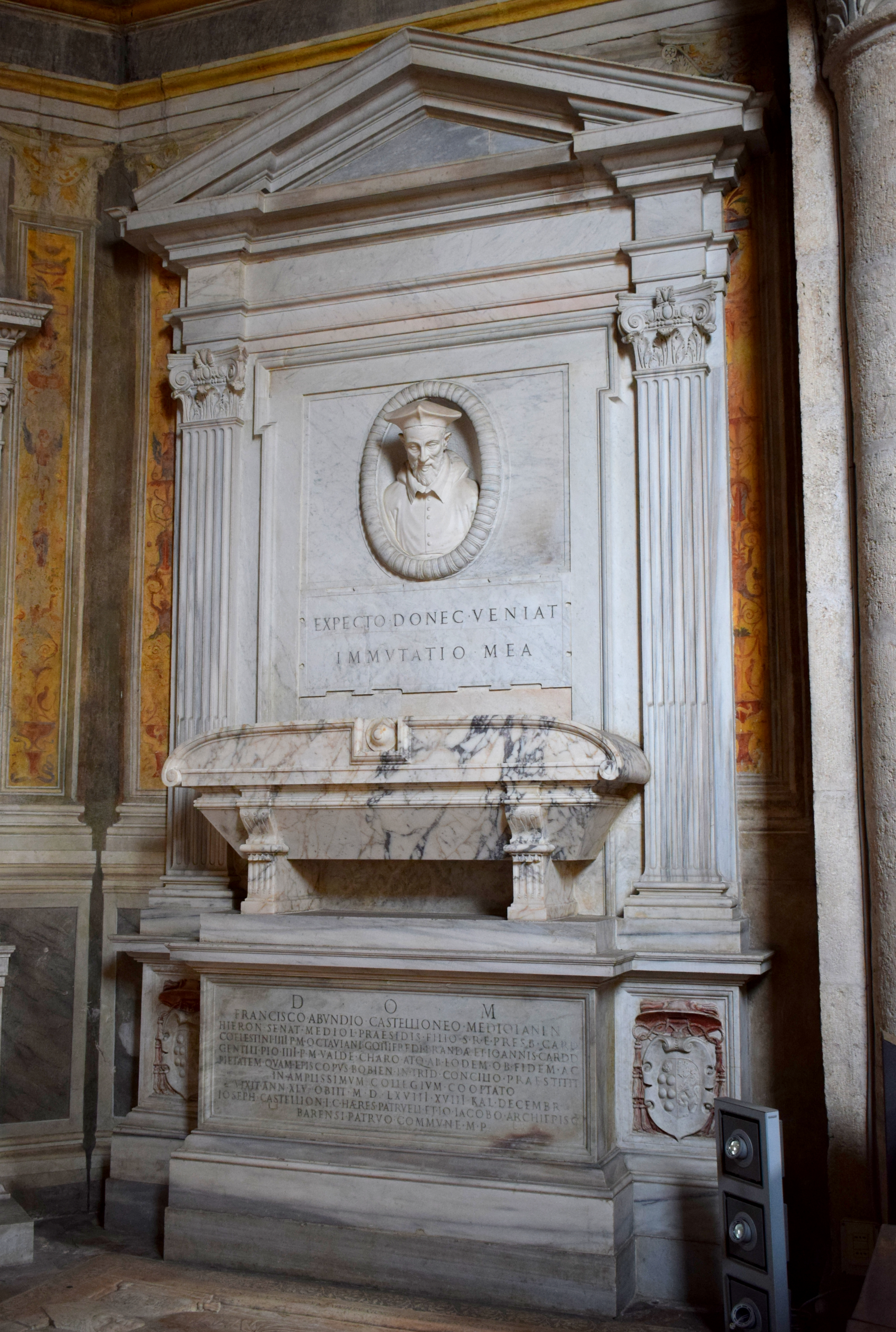 The tomb of Cardinal Francesco Abbondio Castiglione in the Montemirabile Chapel, the Basilica of Santa Maria del Popolo. Unknown artist, after 1568.